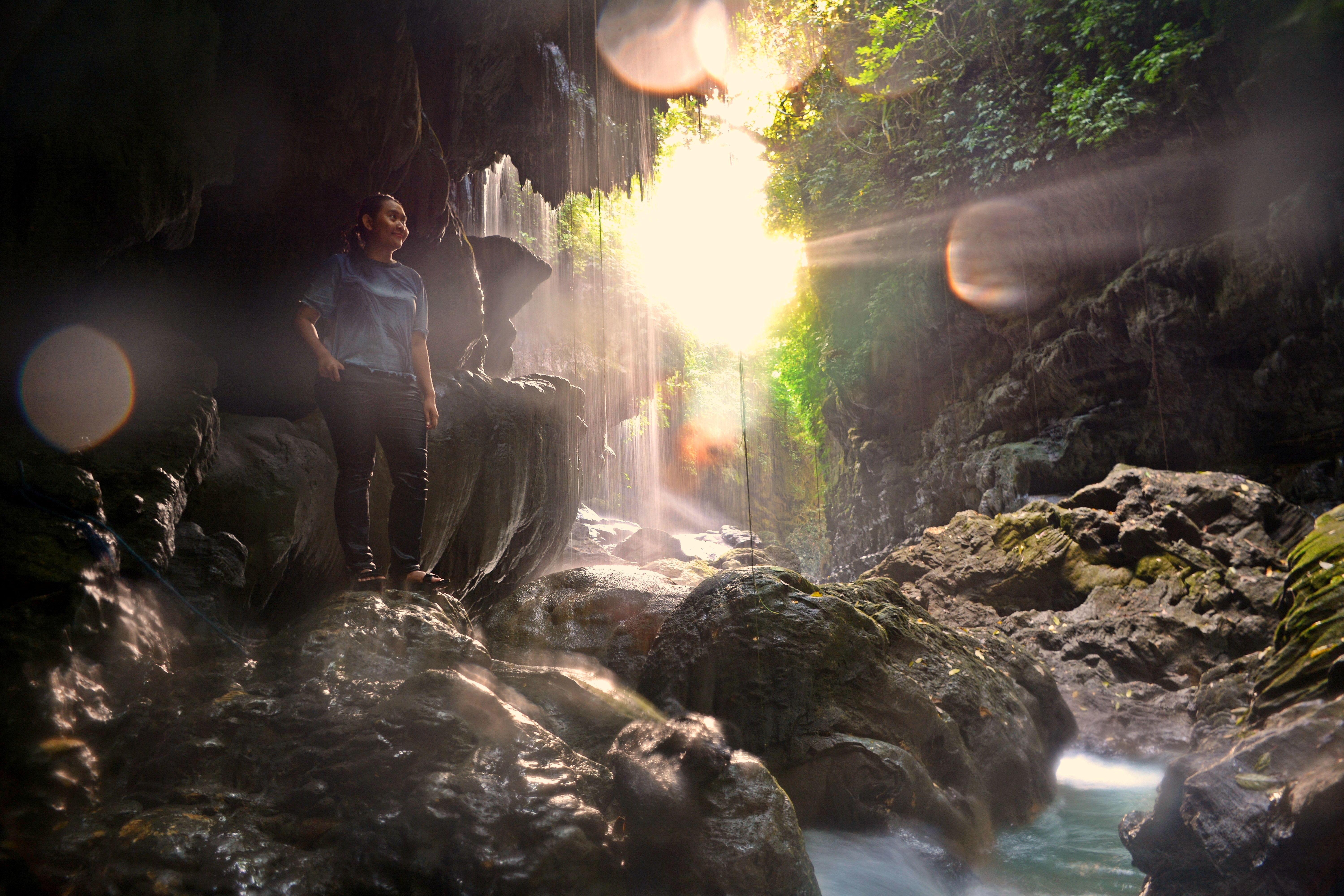 This is the point most visitors will reach before floating back up on the river stream to go back to the starting point